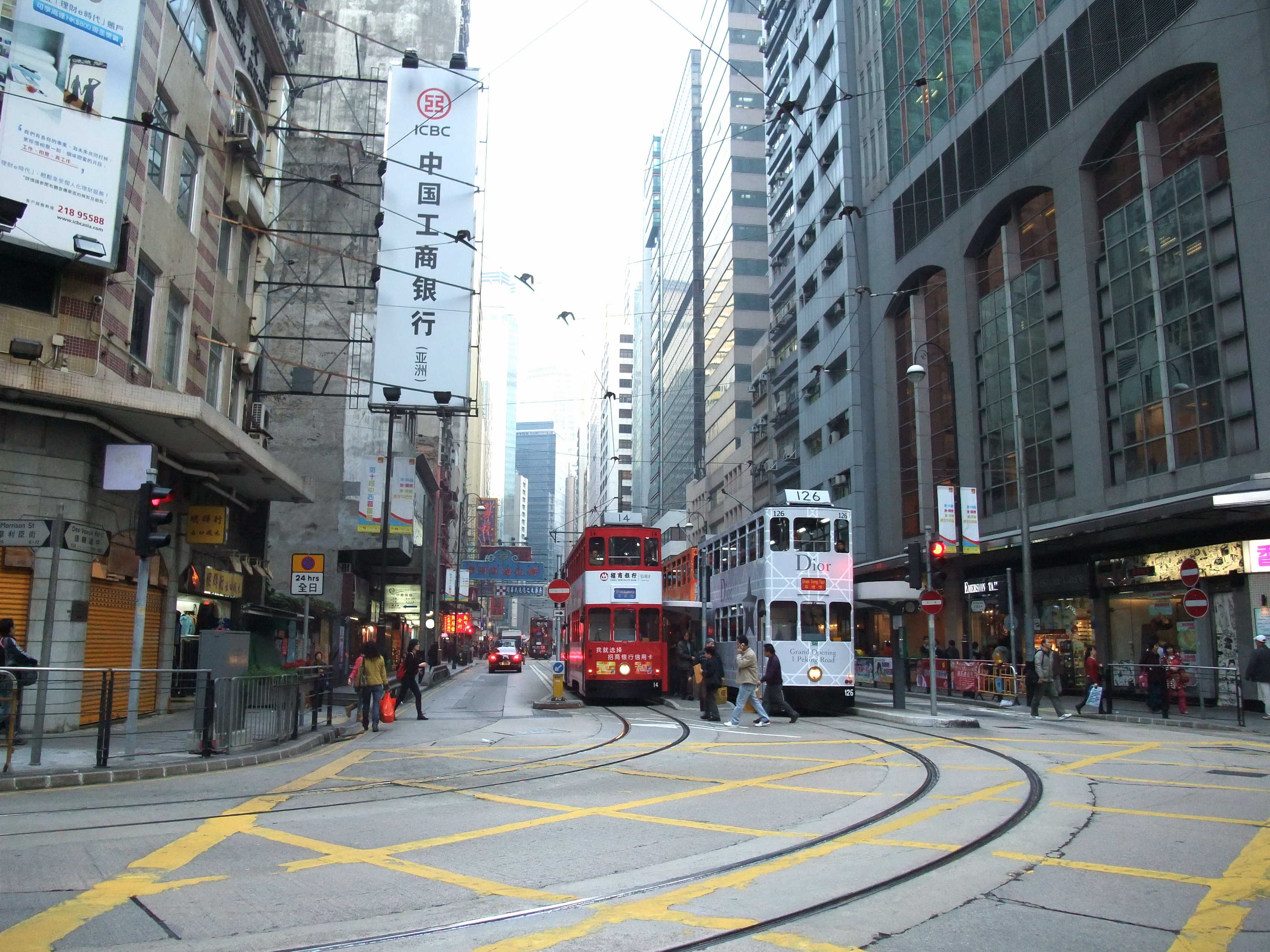 Des Voeux Road Central at Morrison Street, Hong Kong.